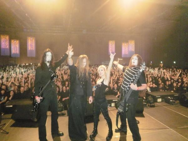 Omega Lithium live in Potsdam (Germany)